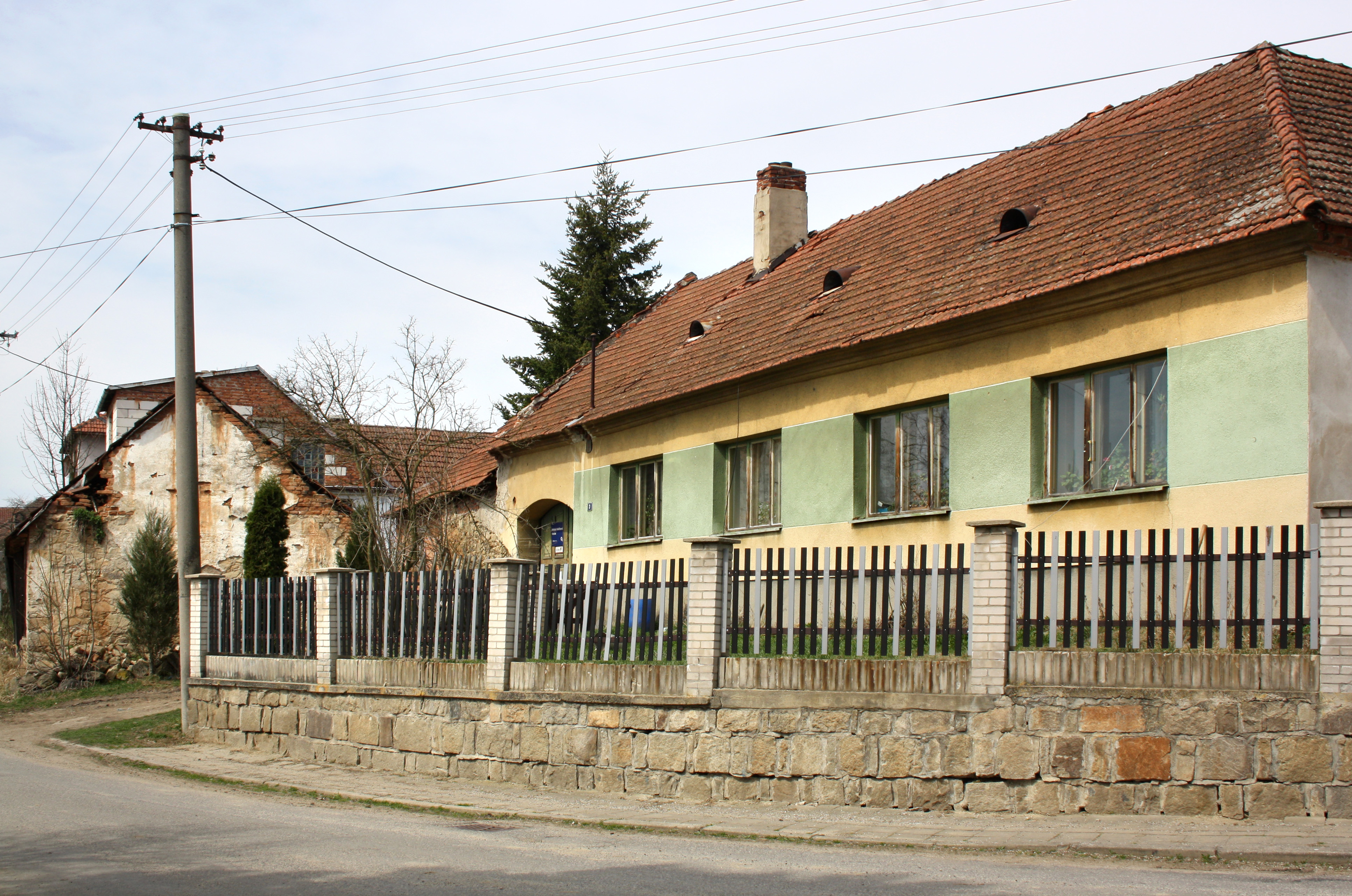 Lower part of Horní Radslavice village